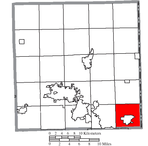 Map of the municipal and township boundaries of Trumbull County, Ohio, United States, as of the 2000 census, with the location of Hubbard Township highlighted. Township borders are shown only in unincorporated areas in order to differentiate incorporated and unincorporated areas more clearly.